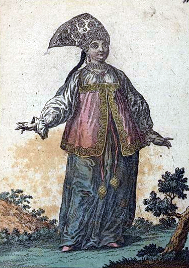 Kaluga girl.